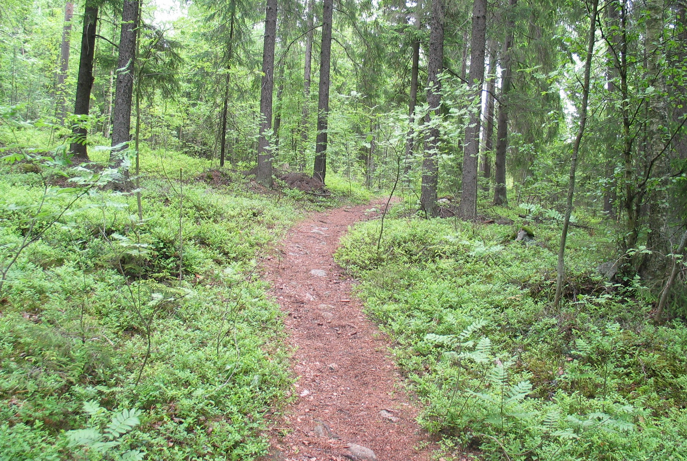 A forest path in southern Finland.